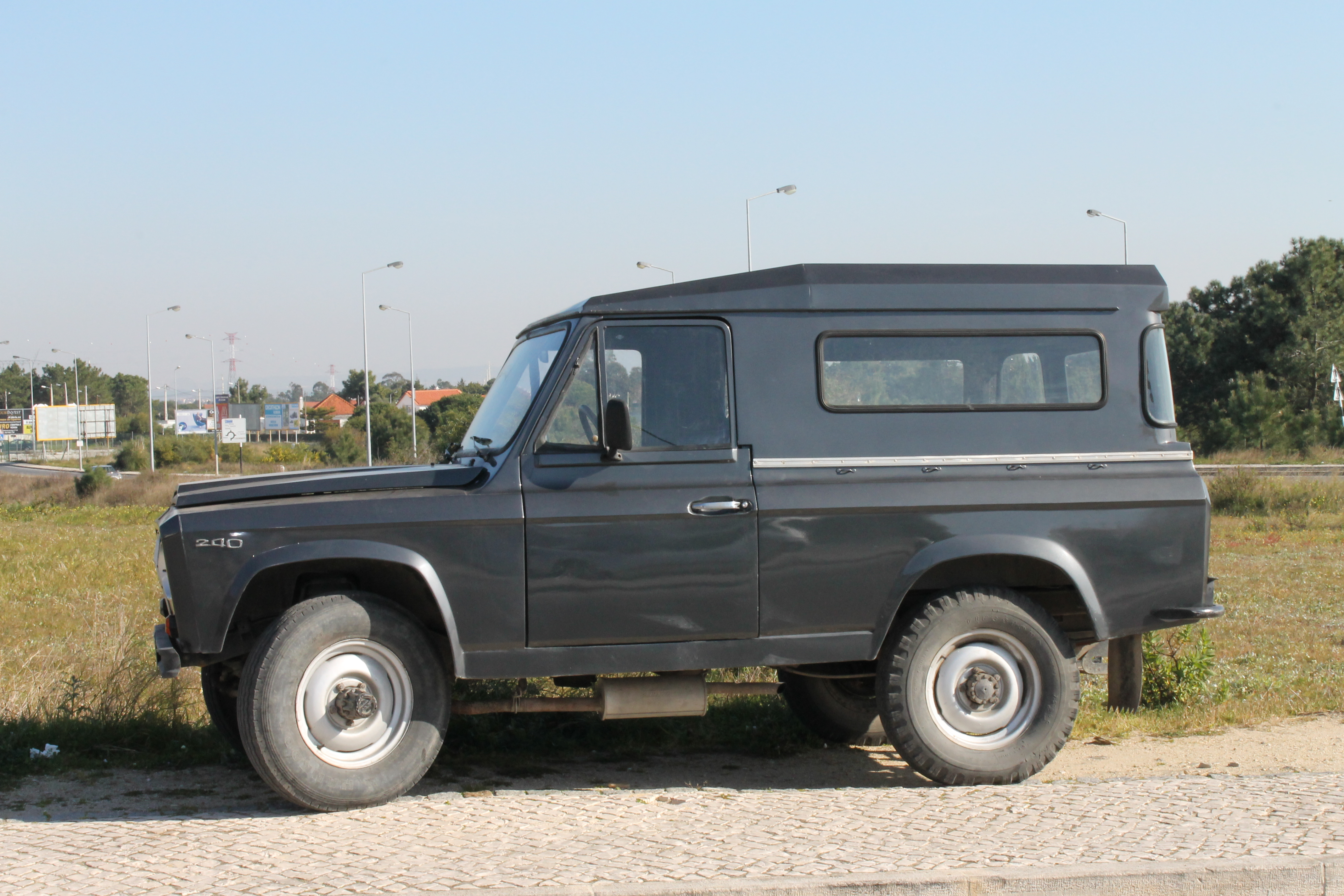 Photo of a Portaro 240